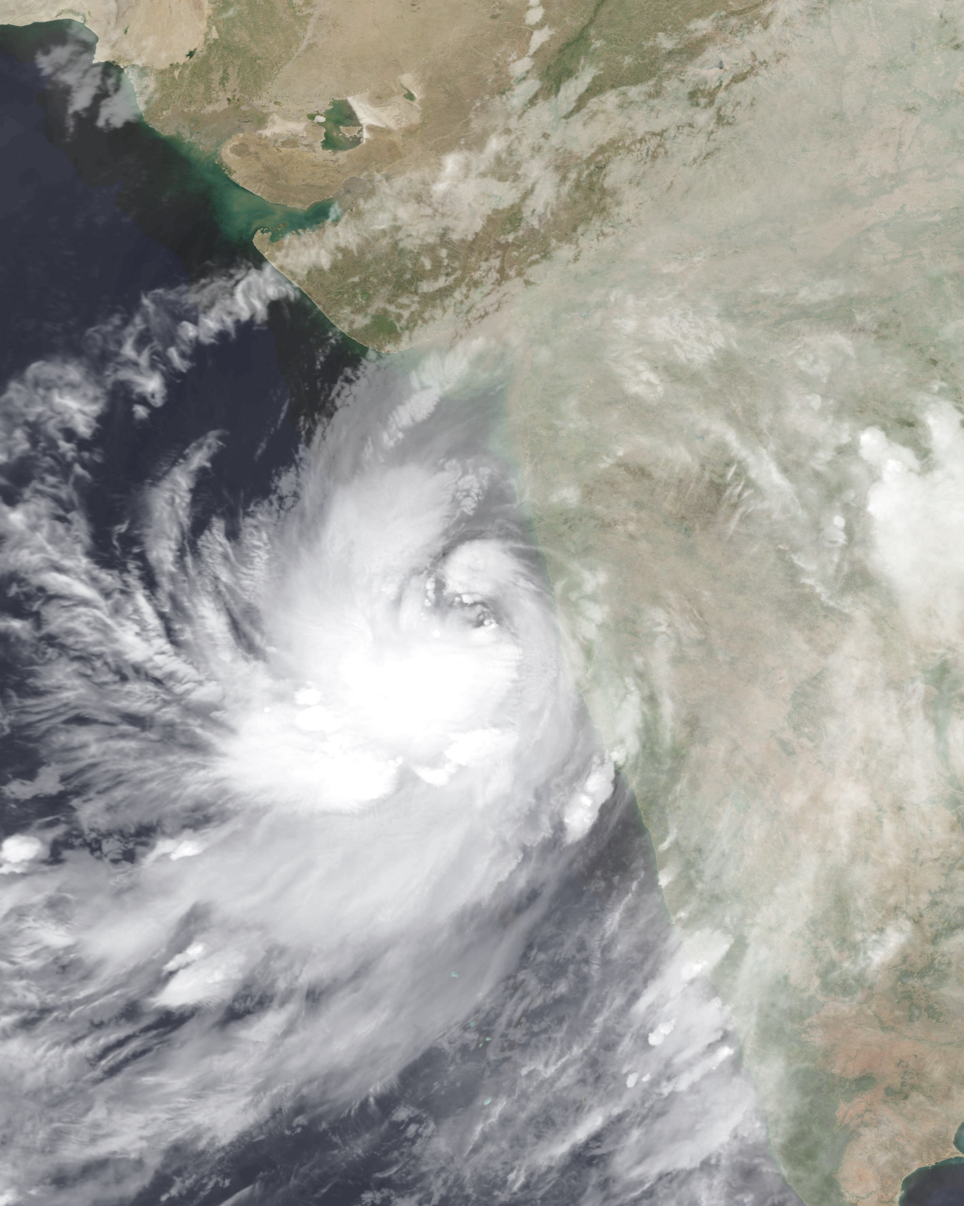 Cyclonic Storm Nisarga on June 2, 2020.